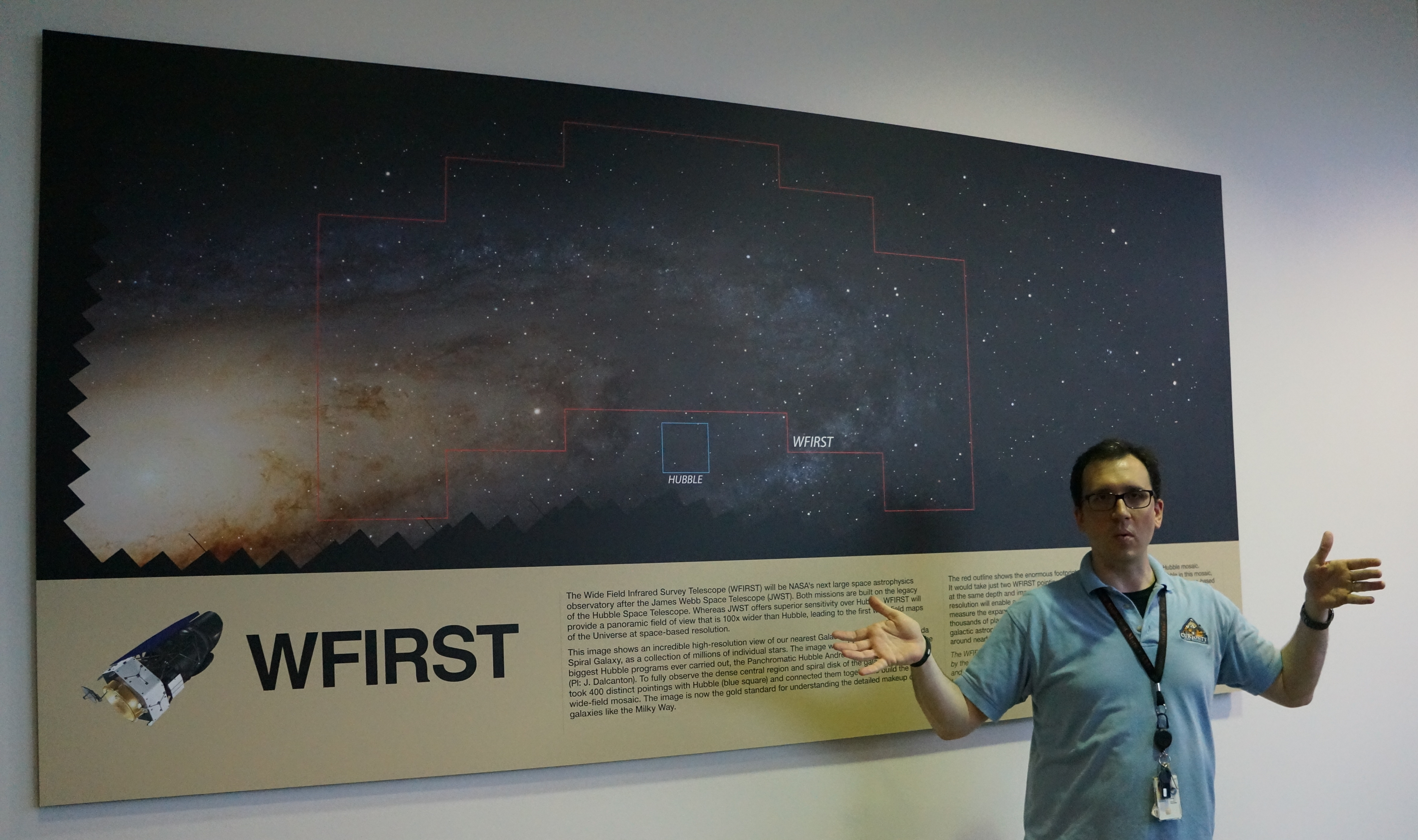 Dr Shawn Domagal-Goldman at NASA's Goddard facility giving a presentation of space exploration.